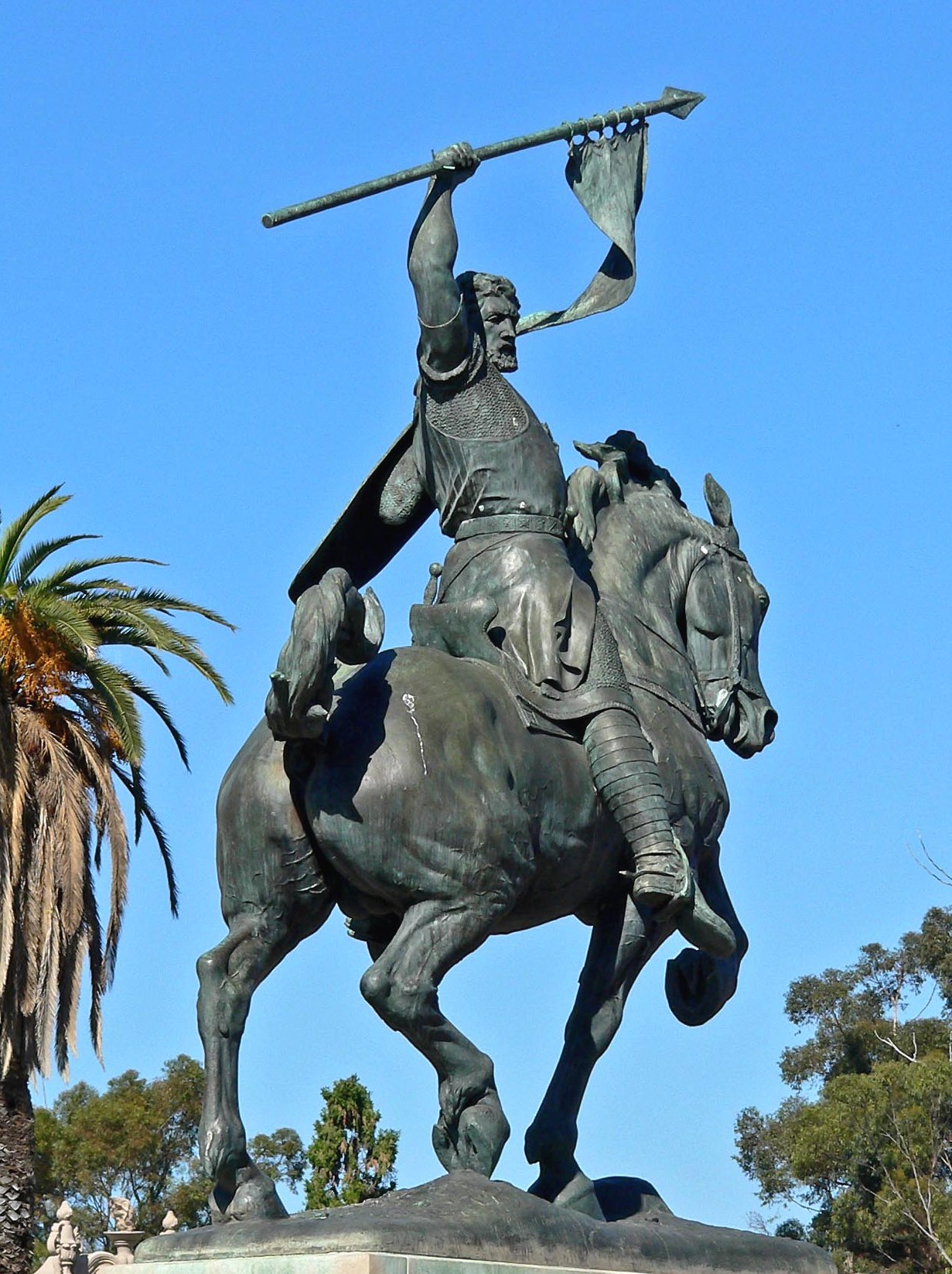 Photo of Balboa Park (San Diego, California) statue of El Cid, taken October 2005.